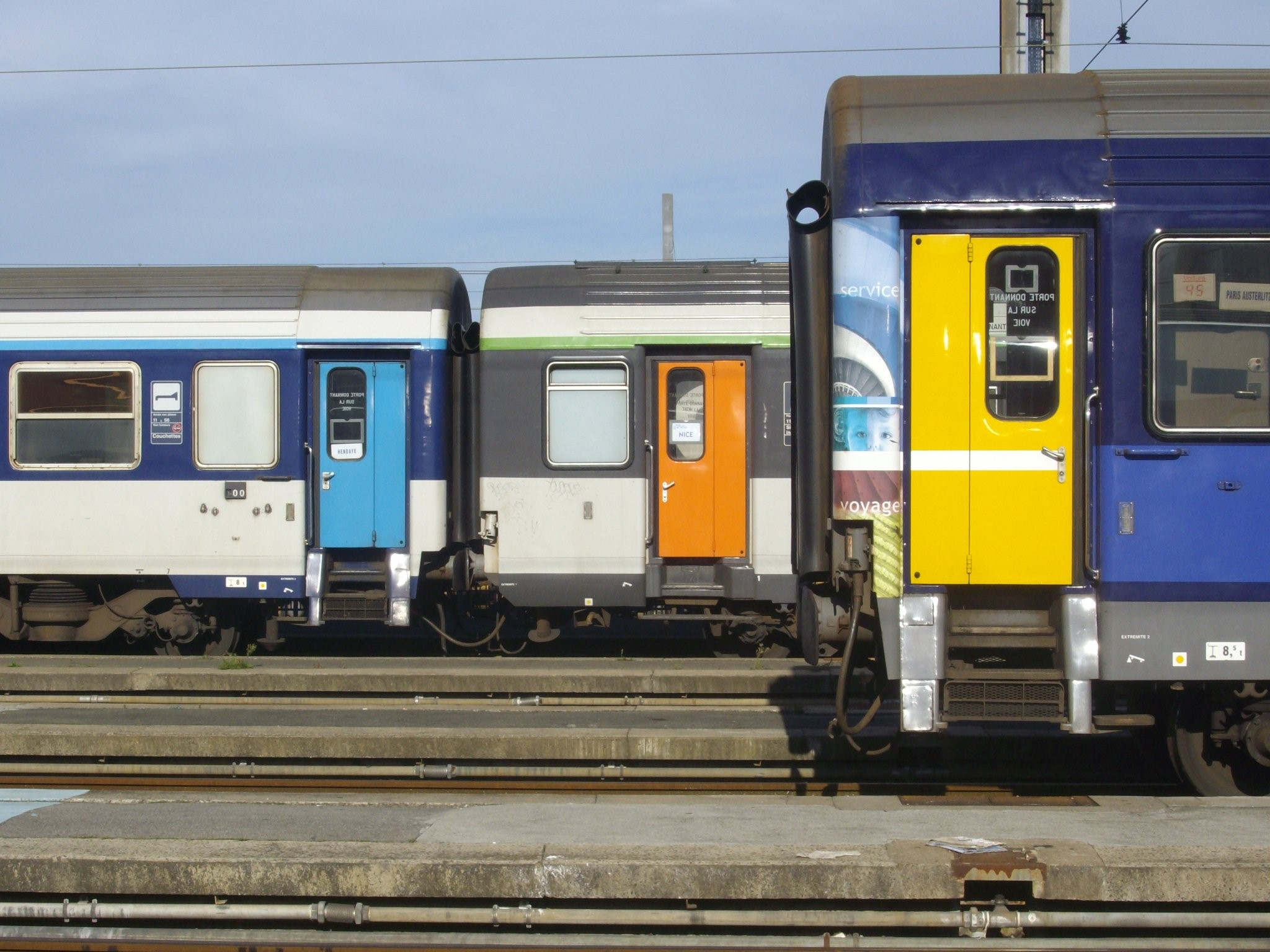 SNCF Corail Vtu coach and Vu couchette cars